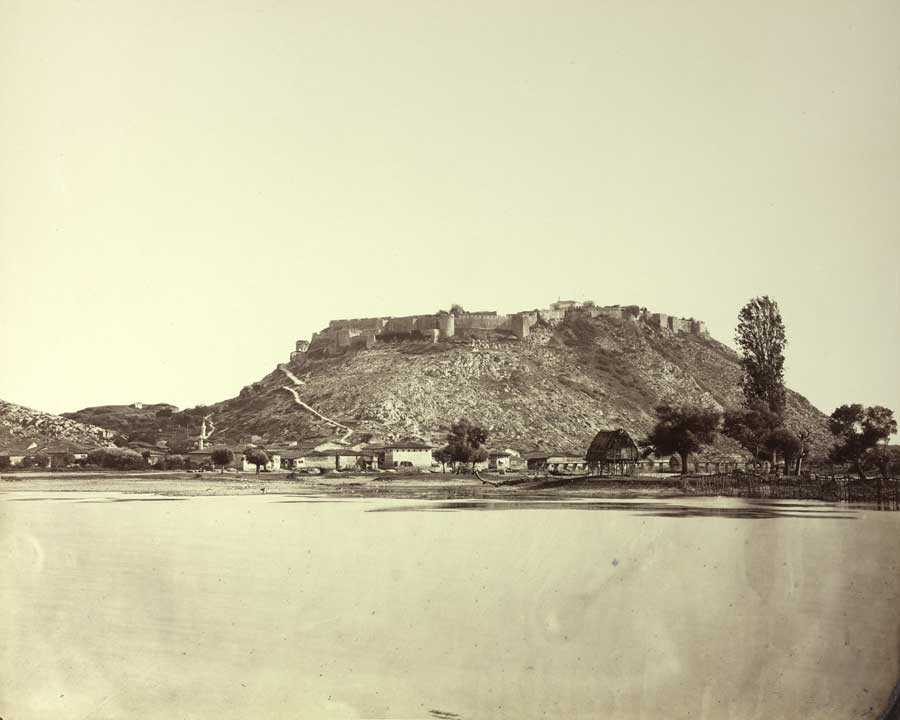 Josef Székely VUES IV 41056 Shkodra: the fortress. End of August 1863